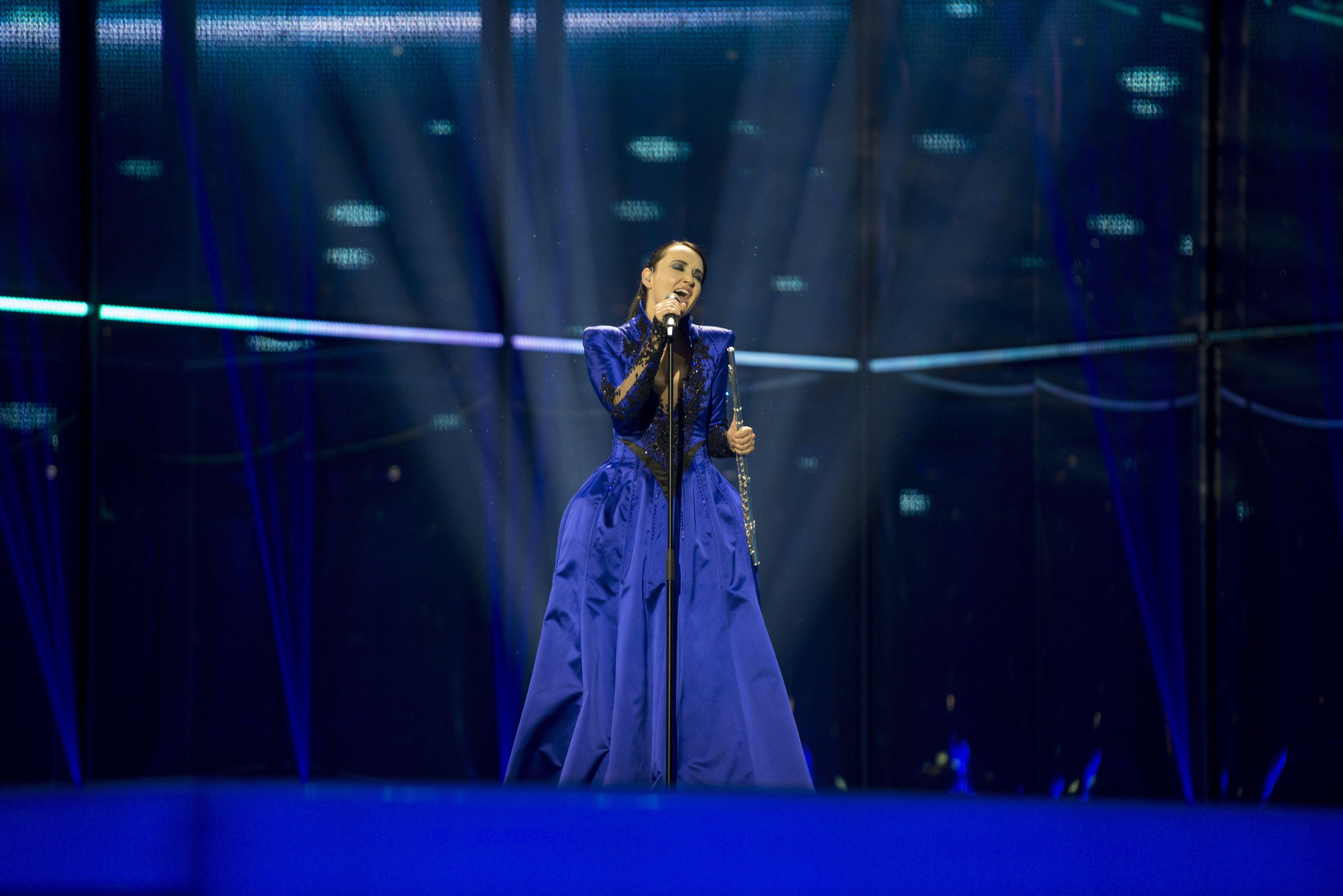 Tinkara Kovač representing Slovenia with the song "Spet (Round and Round)" during the first dress rehearsal of the second semi final of the Eurovision Song Contest 2014 Copenhagen. (Help translate this text)